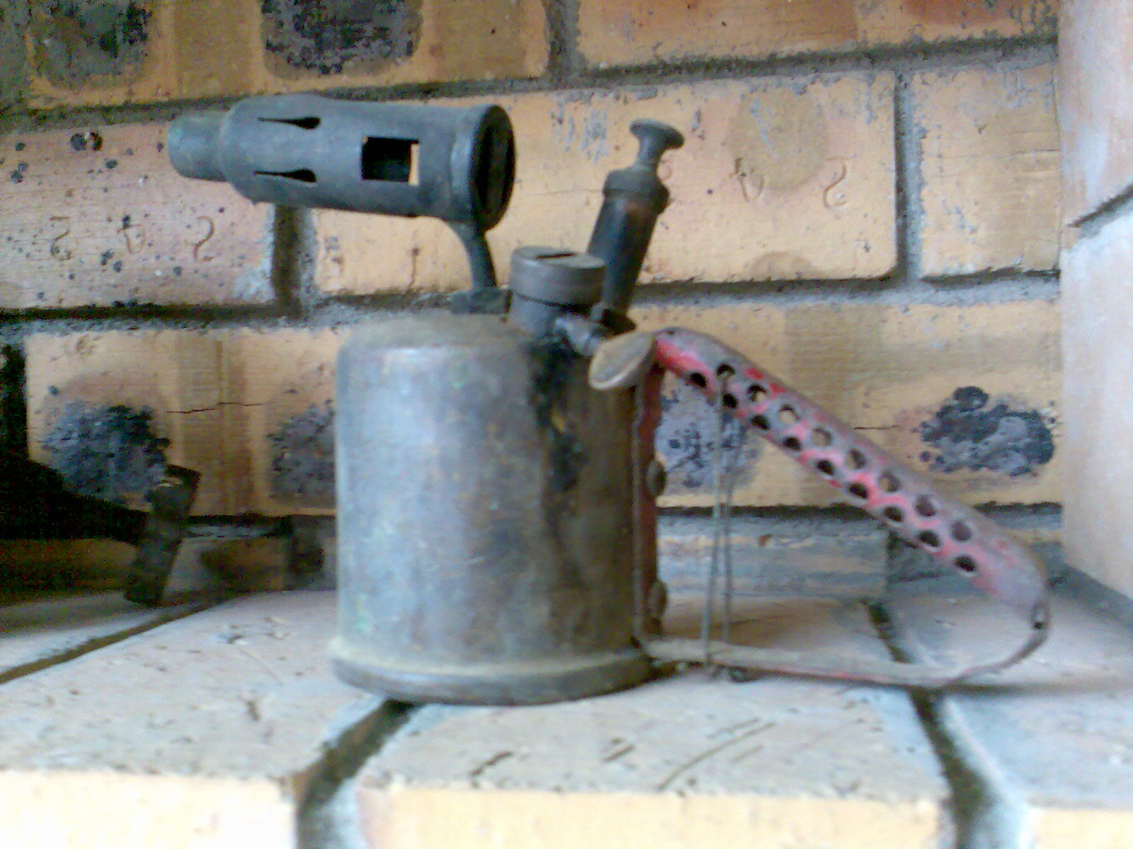 Author: Gregorydavid 19:41, 10 January 2007 (UTC)